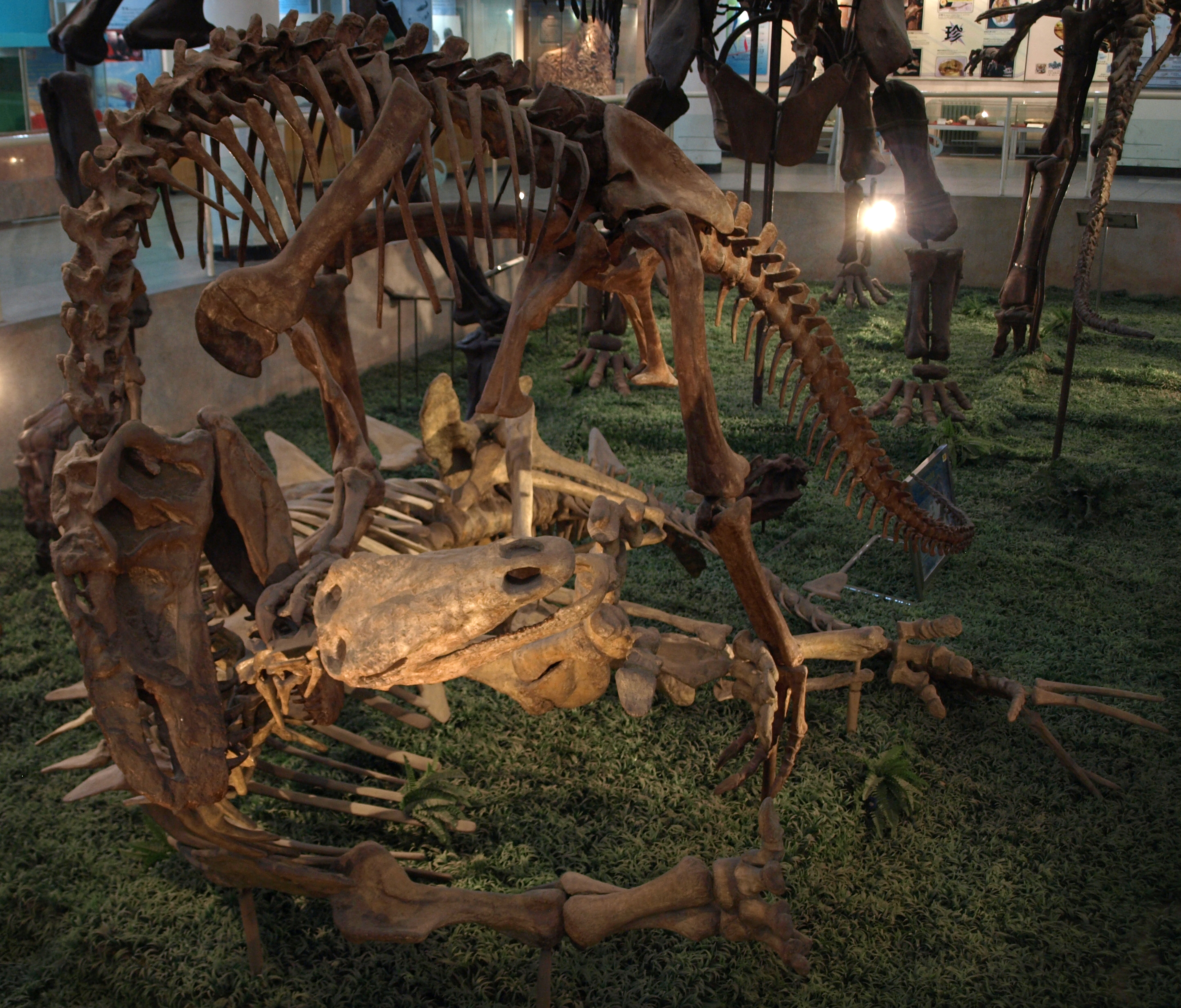 A Monolophosaurus jiangi attacking a Tuojiangosaurus multispinus (both casts) on display at the Paleozoological Museum of China.